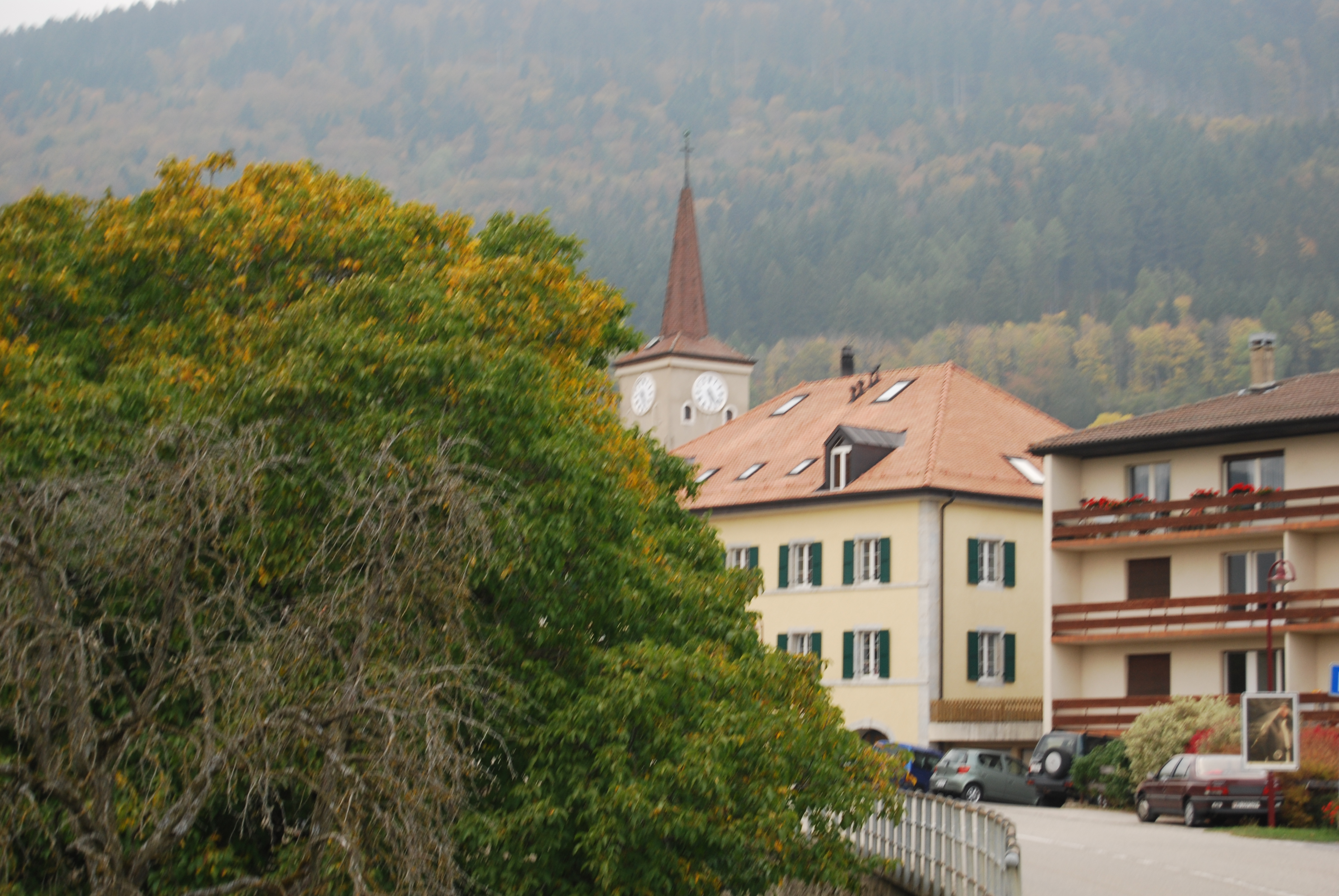 Lignerolle, canton of Vaud, Switzerland